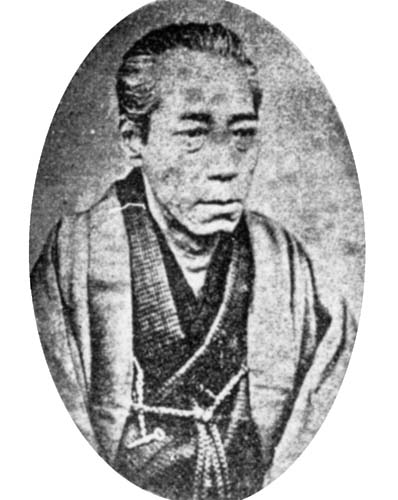 Sato Takanaka.